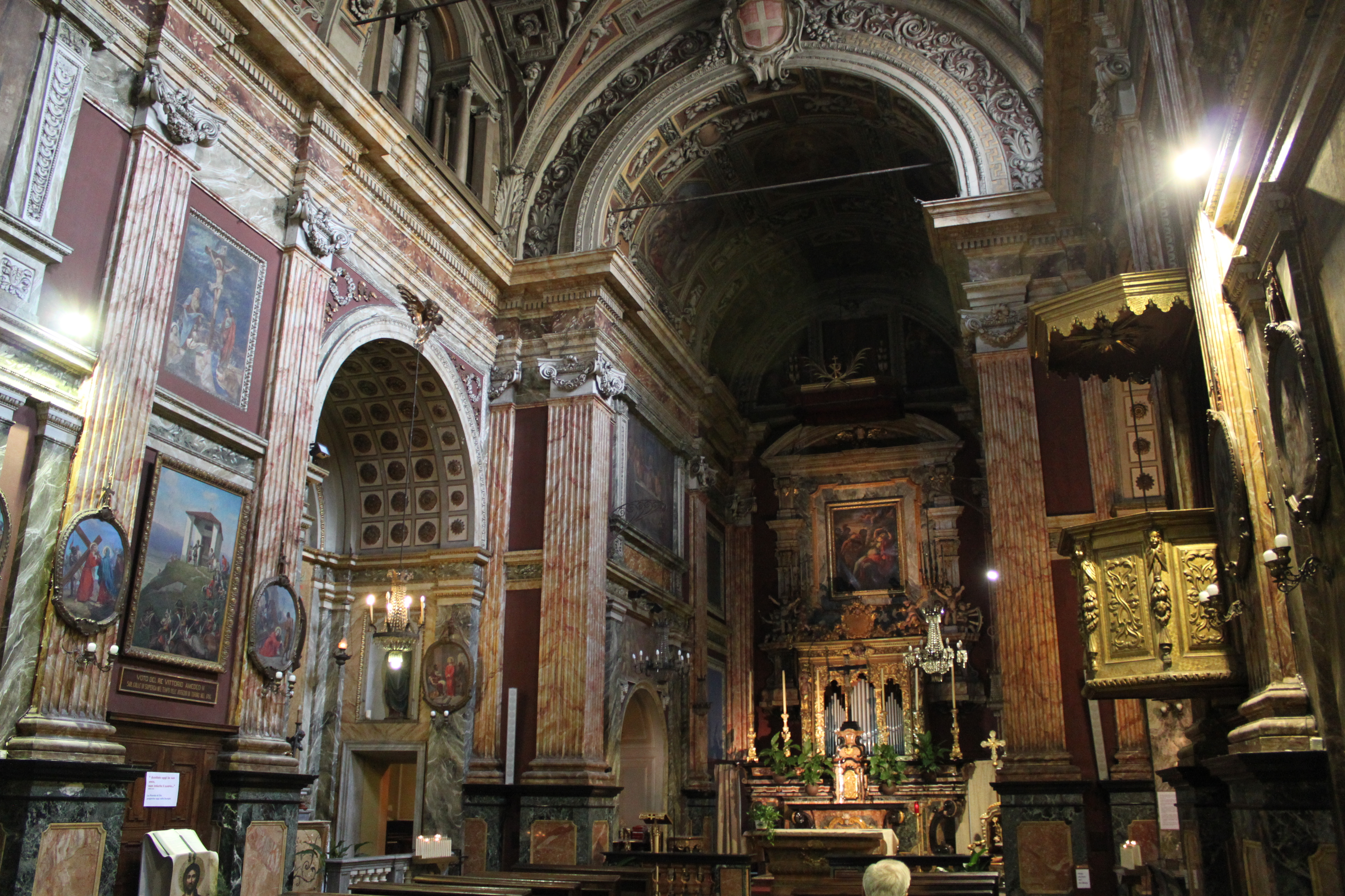 Inside the twin church of Santa Cristina in Turin (Italy).